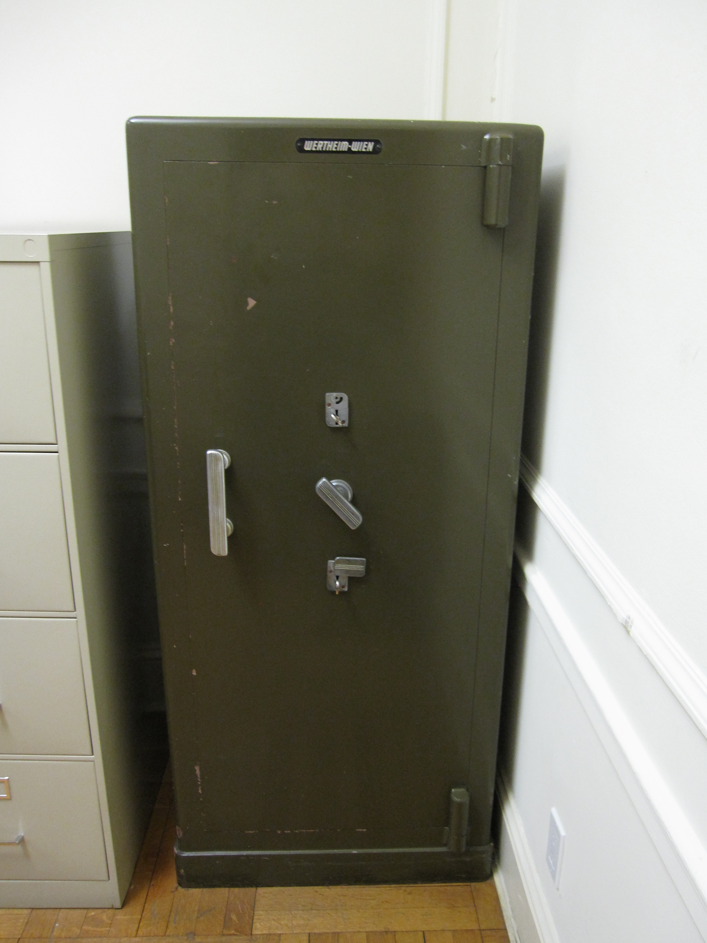 Safe of Wertheim